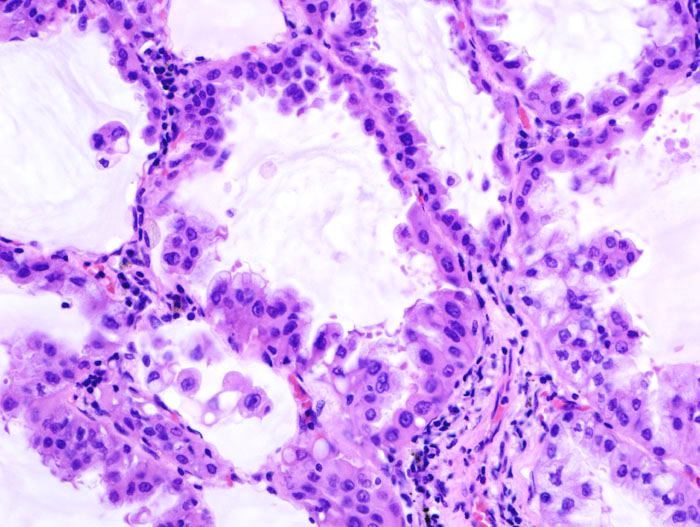 Histopathological image representing bronchiolo-alveolar carcinoma of the lung with mucin production. Hematoxylin and eosin stain.